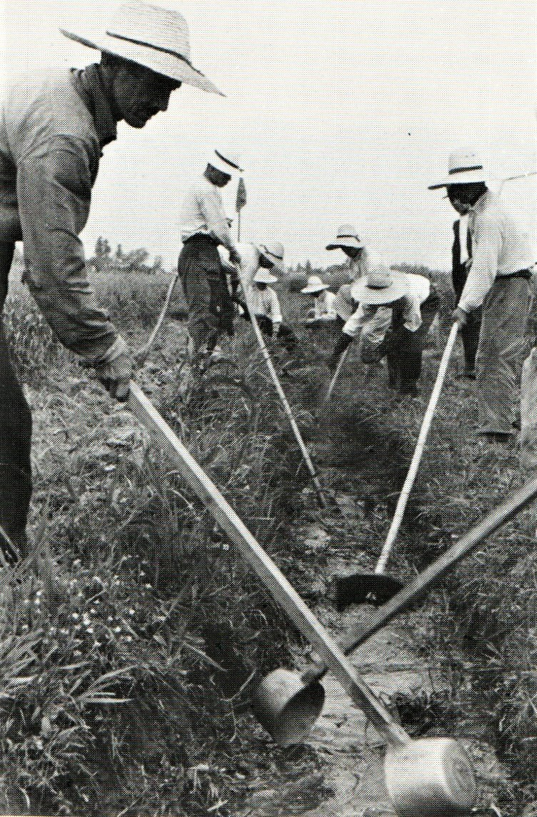 Work to remove the infected Oncomelania nosophora